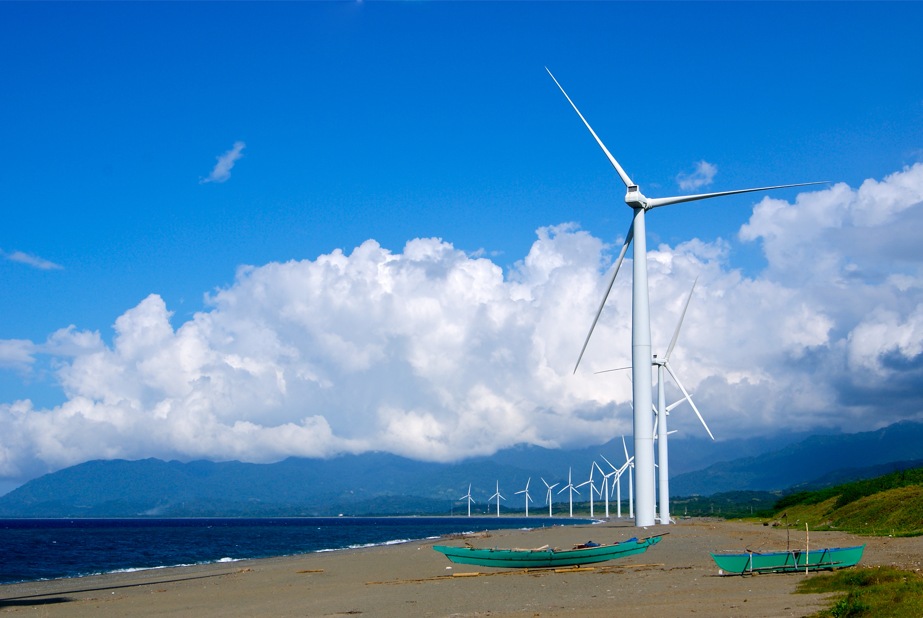 These windmills in Bangui generates electricity for Ilocos Norte